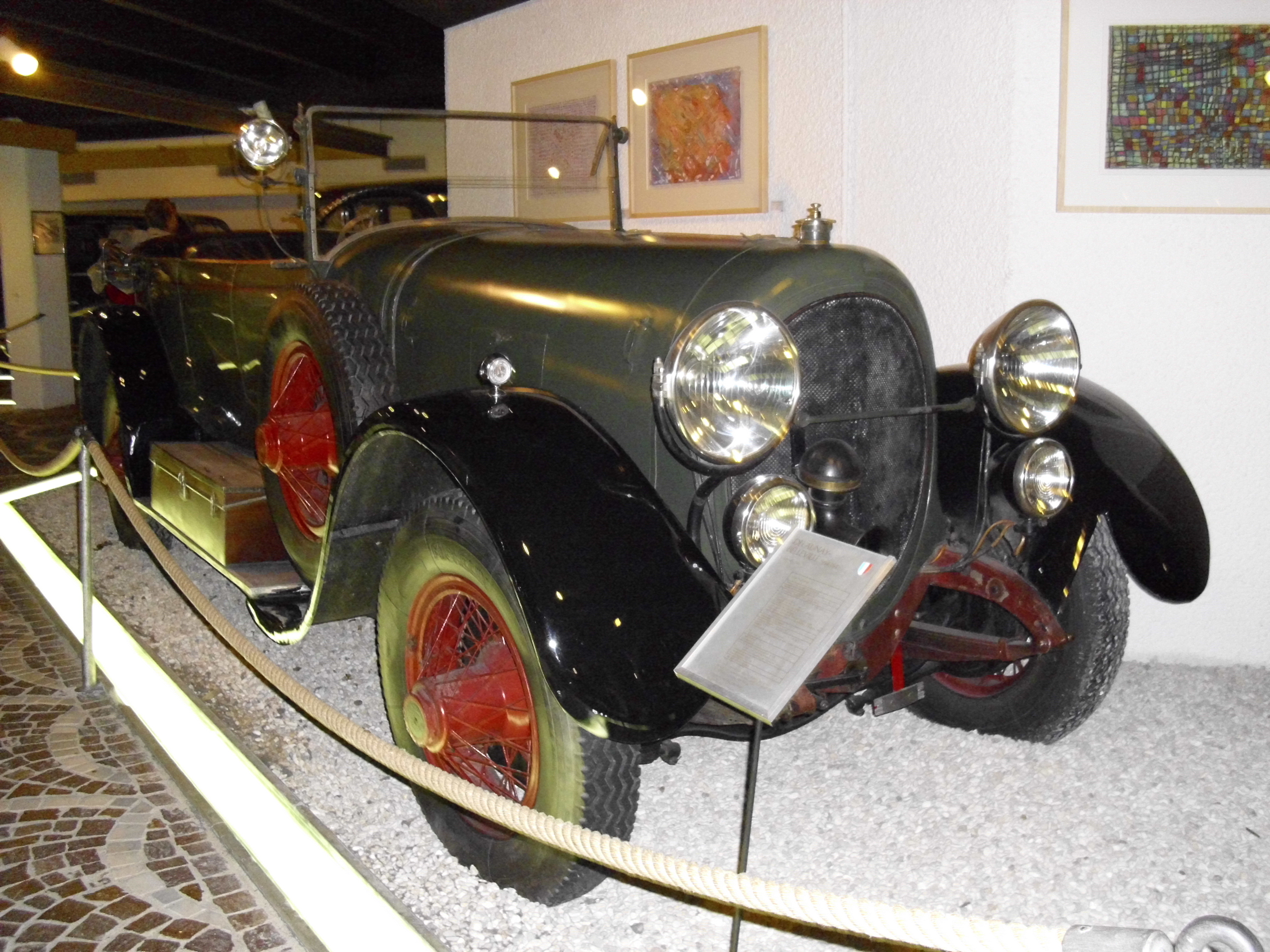 Delaunay-Belleville 1914 (Country of origin: France)